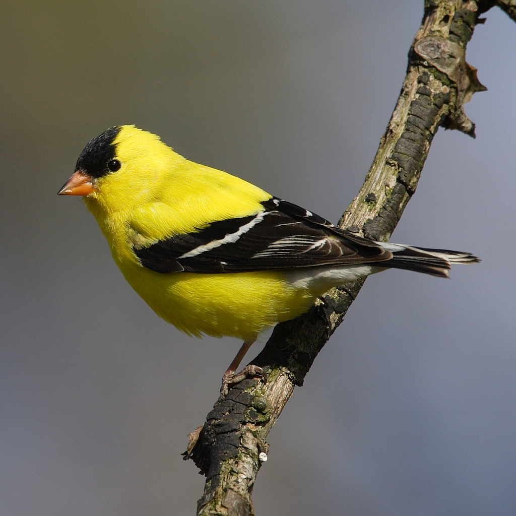 American Goldfinch. Canada Rondeau Provincial Park, Ontario, Canada.